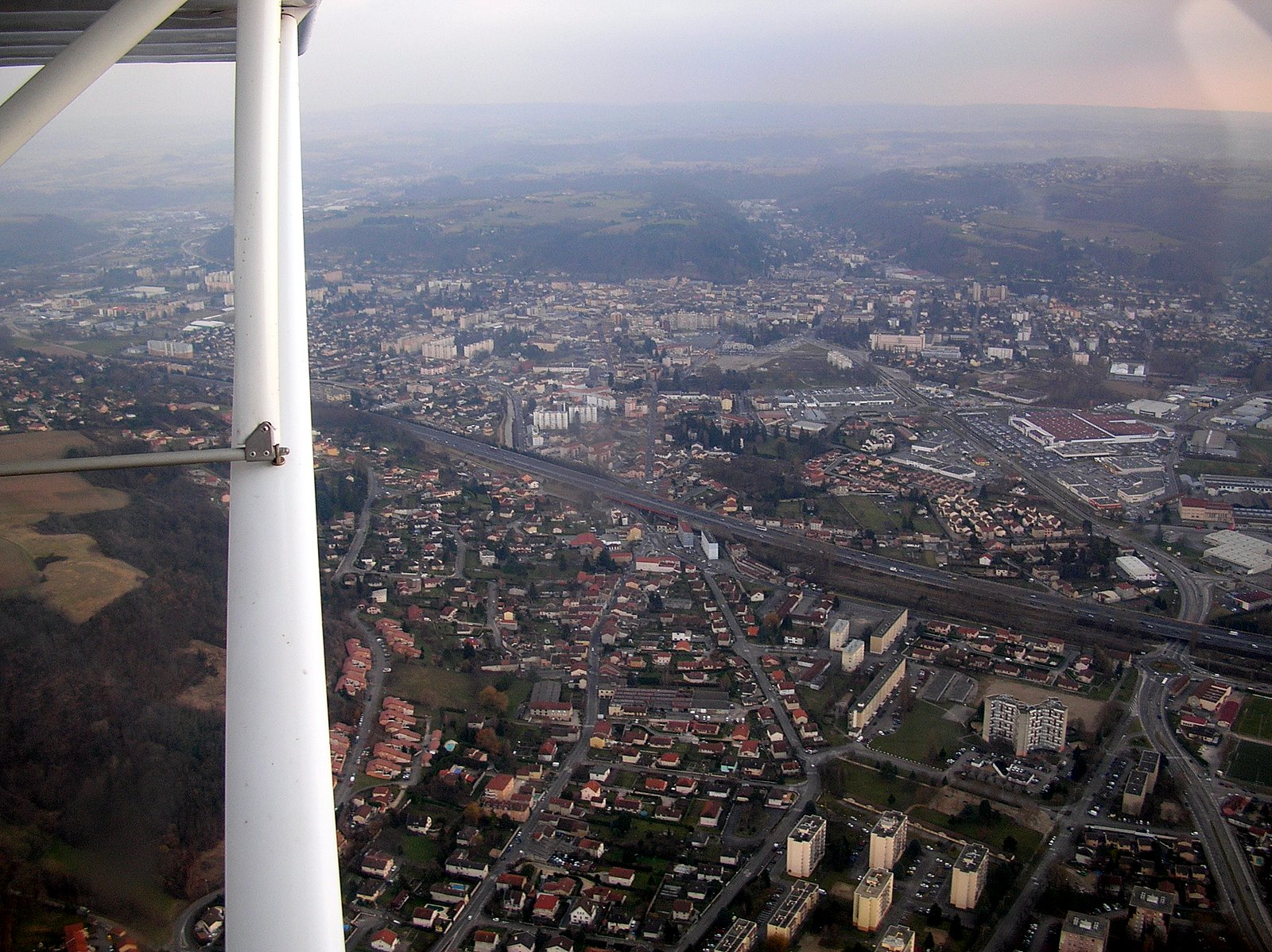 Bourgoin-Jallieu